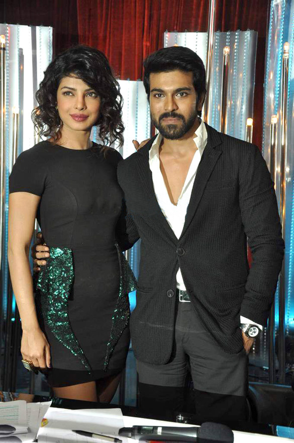 Priyanka Chopra & Ram Charan at Promotion of 'Zanjeer' on Jhalak Dikhhla Jaa